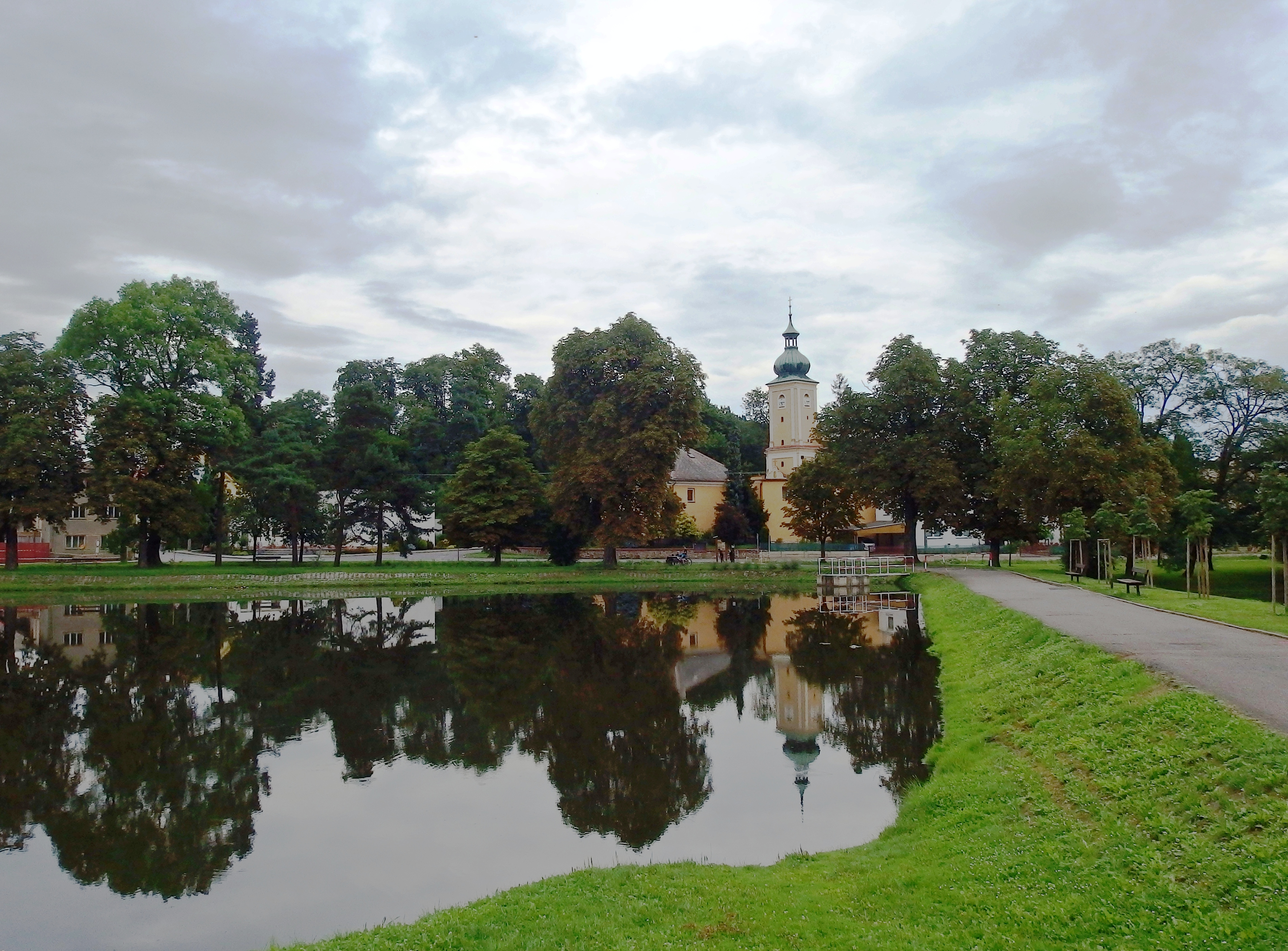 Oldřišov, Opava District, Czech Republic.